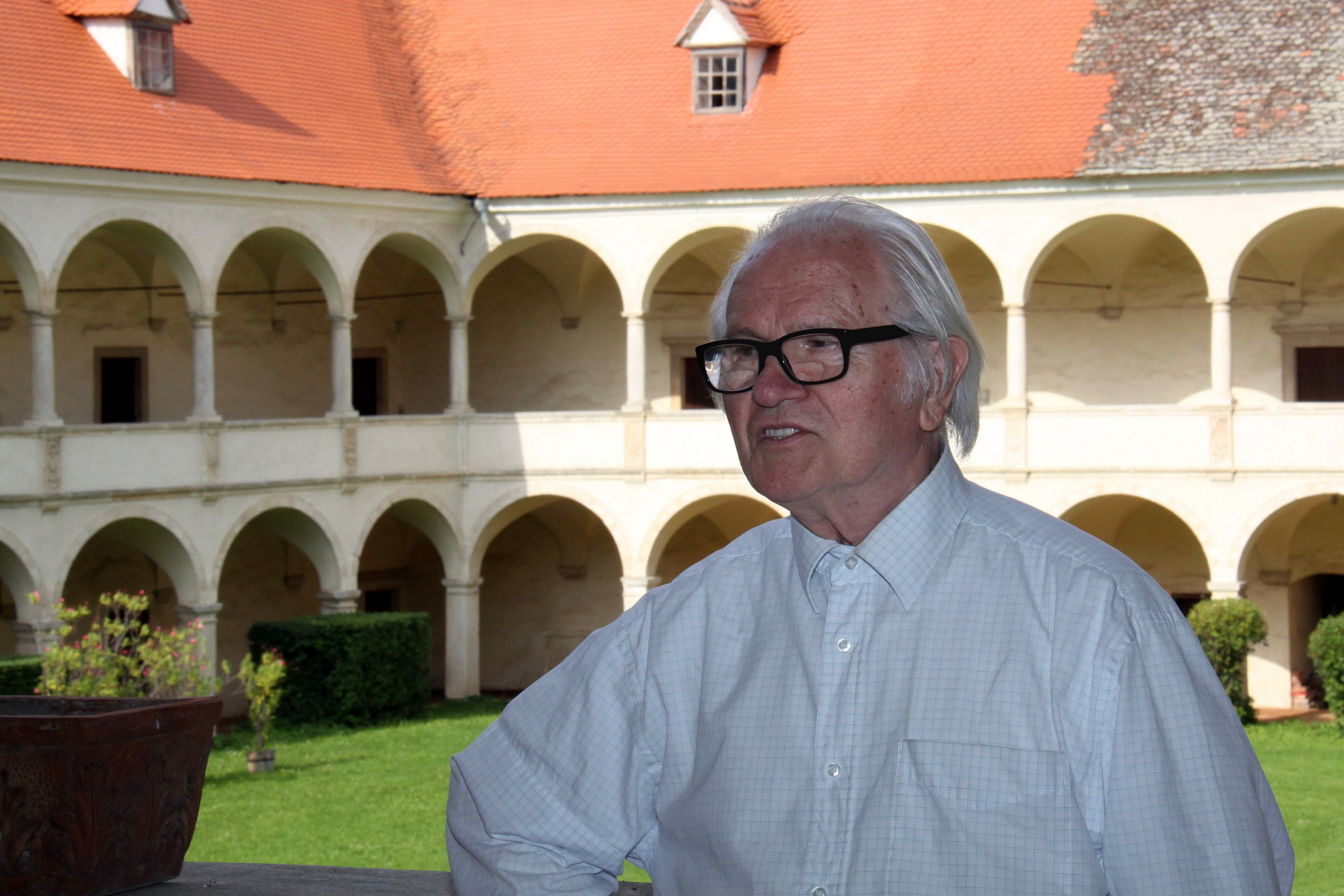 Castle Deutschkreutz Object location47° 35′ 59.19″ N, 16° 38′ 45.67″ E